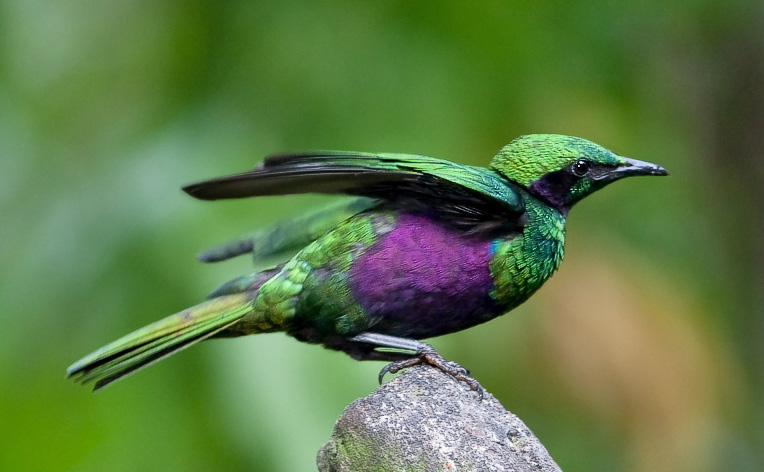 Iris Glossy Starling Lamprotornis iris